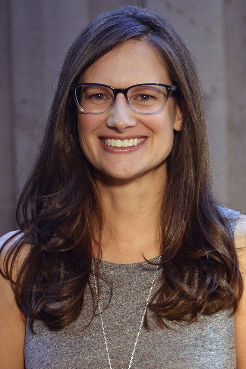 Dr.Nerida Wilson photographed at Feburary, 2018